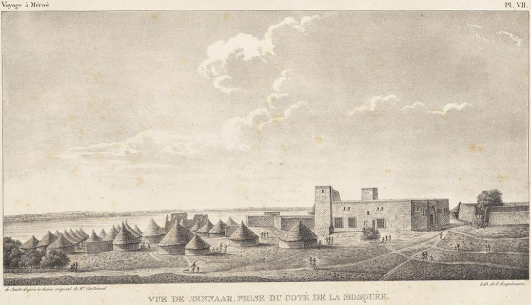 Mosque of Sennar in 1821.